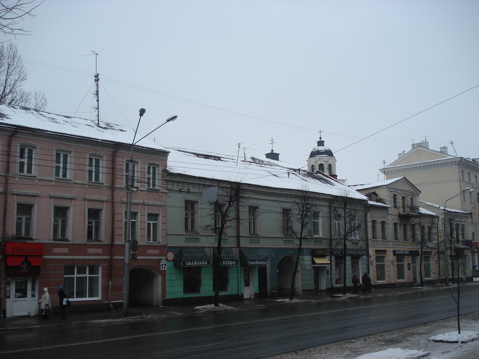 Church of Saint Stanislaus, Mаhiloŭ